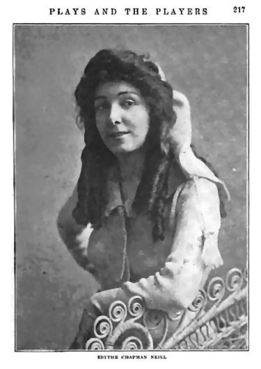 Actress Edythe Chapman Neill